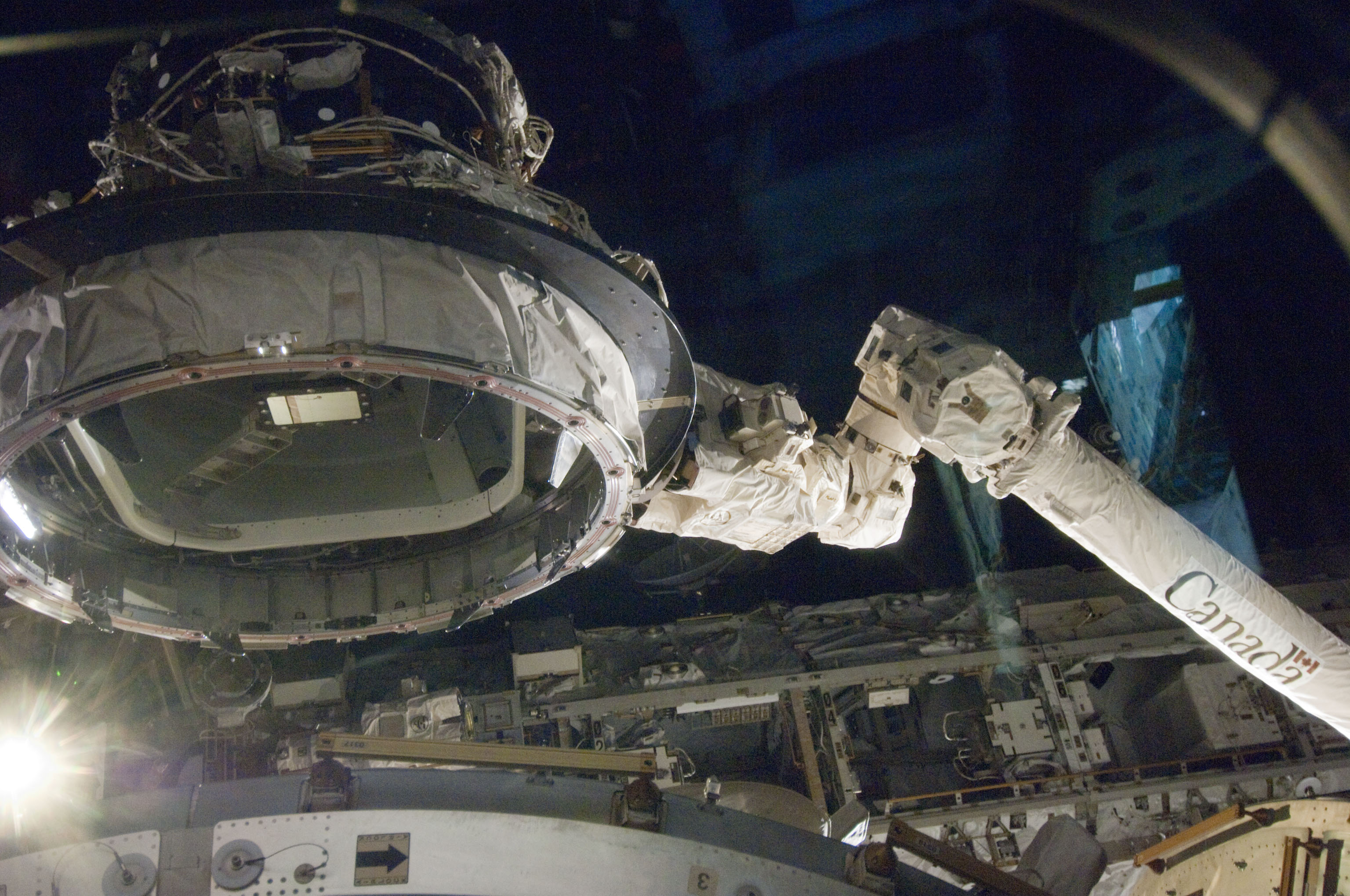 In the grasp of the Canadarm2, the Pressurized Mating Adapter 3 (PMA-3) is relocated from the Harmony node to the open port on the end of the newly-installed Tranquility node. NASA astronauts Robert Behnken and Nicholas Patrick, both STS-130 mission specialists, operated the station's robotic arm for the move, while Jeffrey Williams, Expedition 22 commander; and Japan Aerospace Exploration Agency (JAXA) astronaut Soichi Noguchi, Expedition 22 flight engineer, dealt with latches and bolts, connecting the port to its new home.